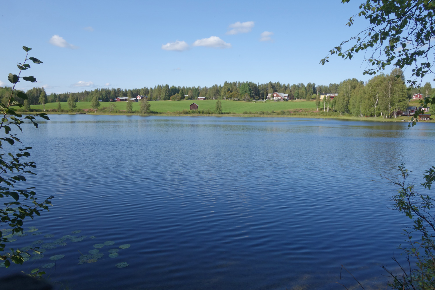 Lake Abborrtjärnen, north of Vindeln. On the other side of the lake is the village Abborrtjärn.